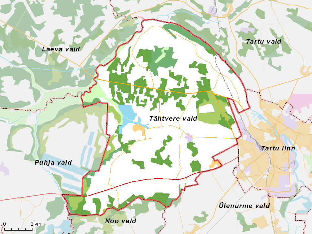 Map of municipality in Estonia